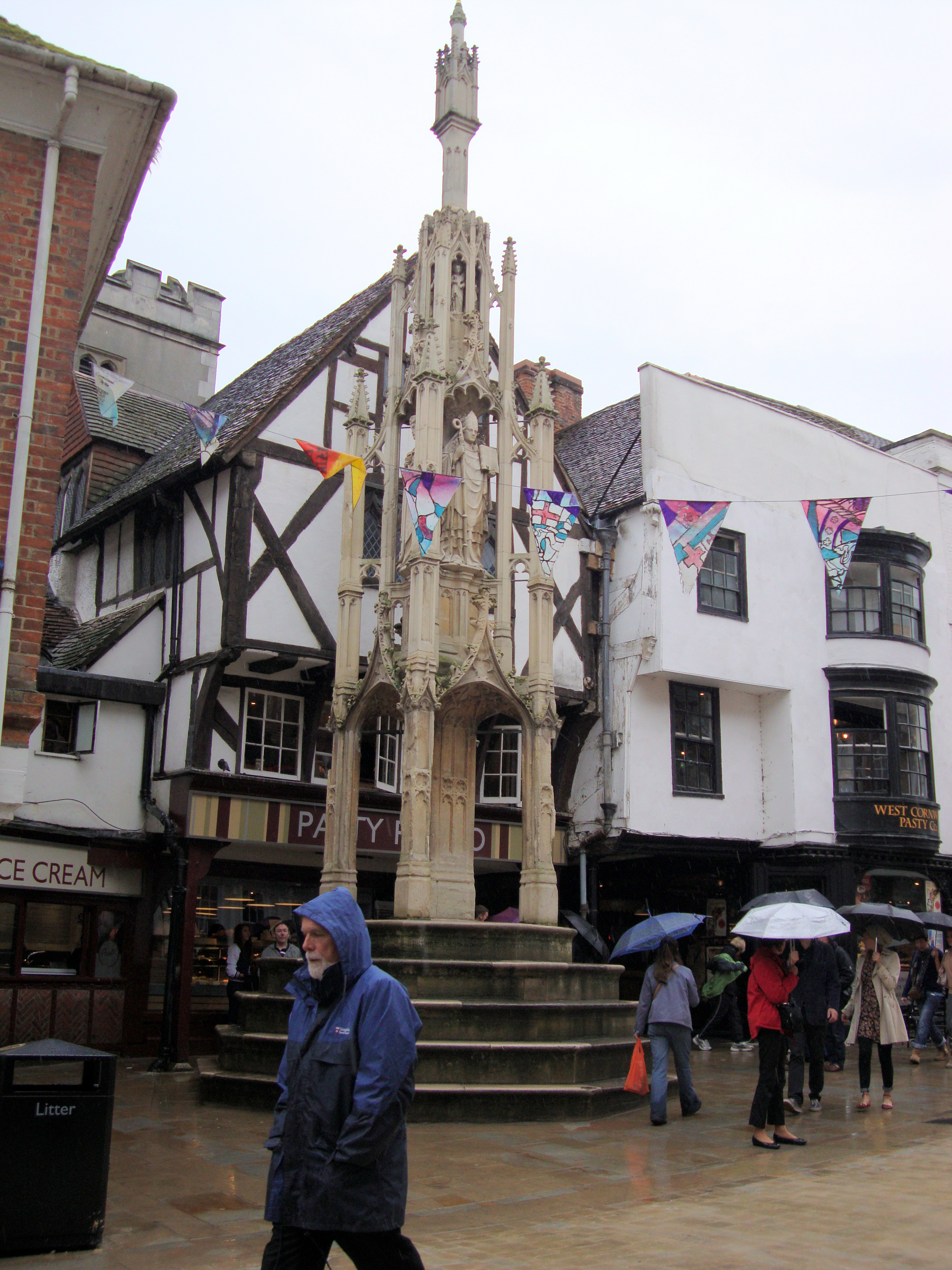 The Buttercross or City Cross in Winchester High Street, taken in September 2010.